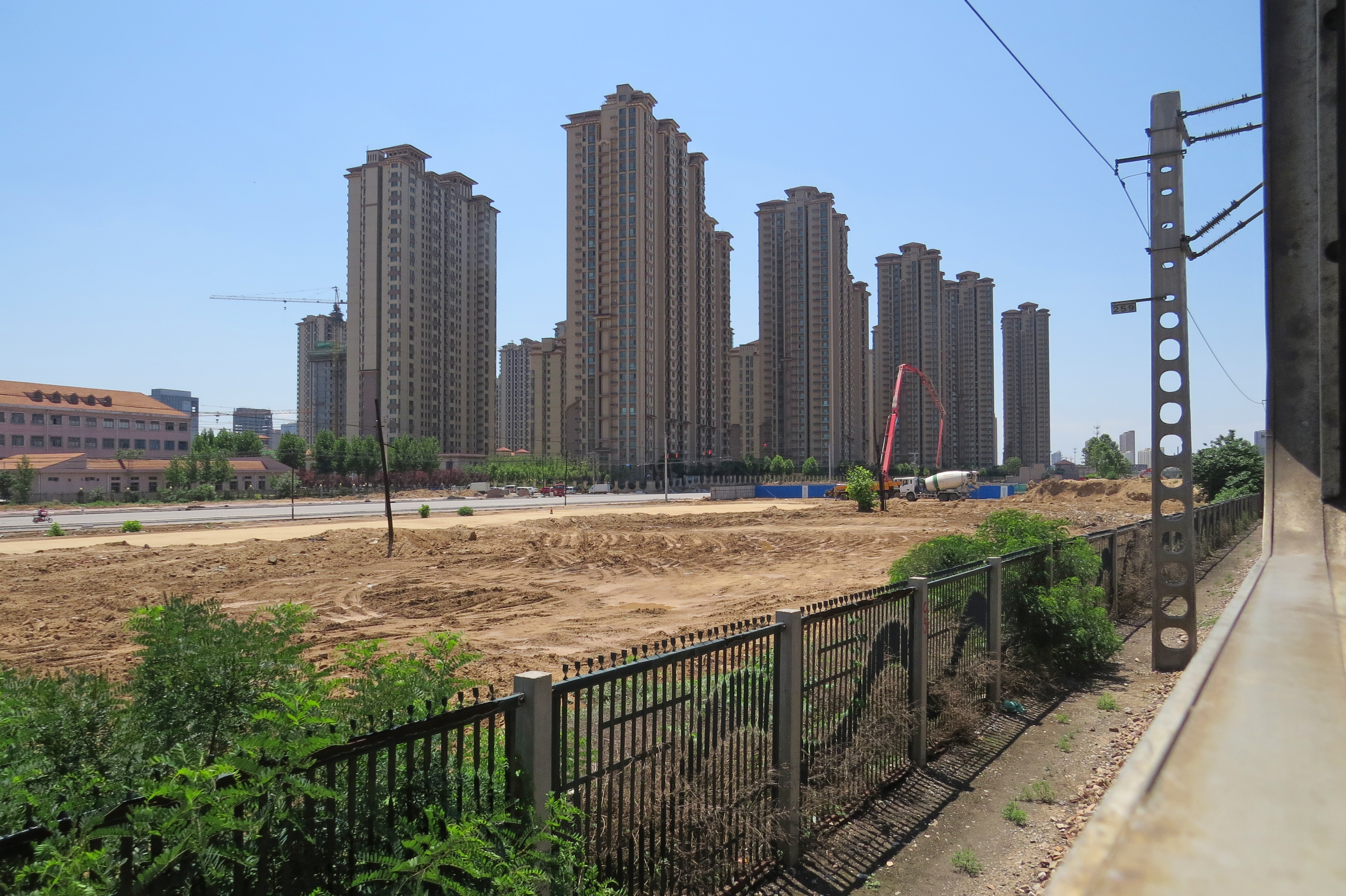 And this must be the future East Station.